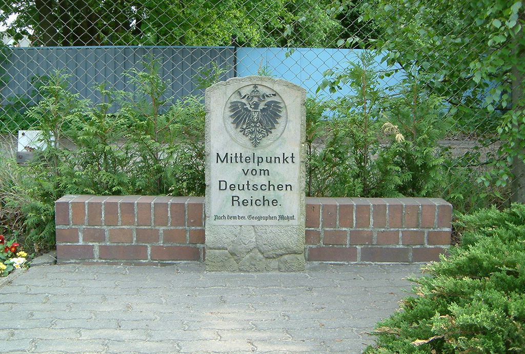 Memorial plate: Spremberg – centre of the German Empire 1871–1920